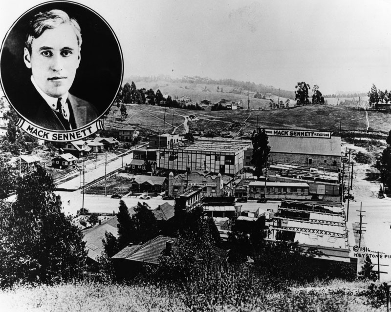 Panoramic view of the Mack Sennett's Keystone Studios, located 1712 Allessandro Avenue (later renamed Glendale Boulevard) in Edendale, now part of Echo Park. Mack Sennett (1880-1960), whose photo has been placed in the upper left corner of the image, founded the Keystone Studios in Edendale, with the help of financial backing. Many important actors started their careers with Sennett, including Mabel Normand. Charlie Chaplin, Raymond Griffith, Gloria Swanson, Ford Sterling, Andy Clyde, The Keystone Kops, Bing Crosby, and W. C. Fields. In 1917 Sennett gave up the Keystone trademark and organized Mack Sennett Comedies Corporation, producing longer comedy short films and a few feature-length films.